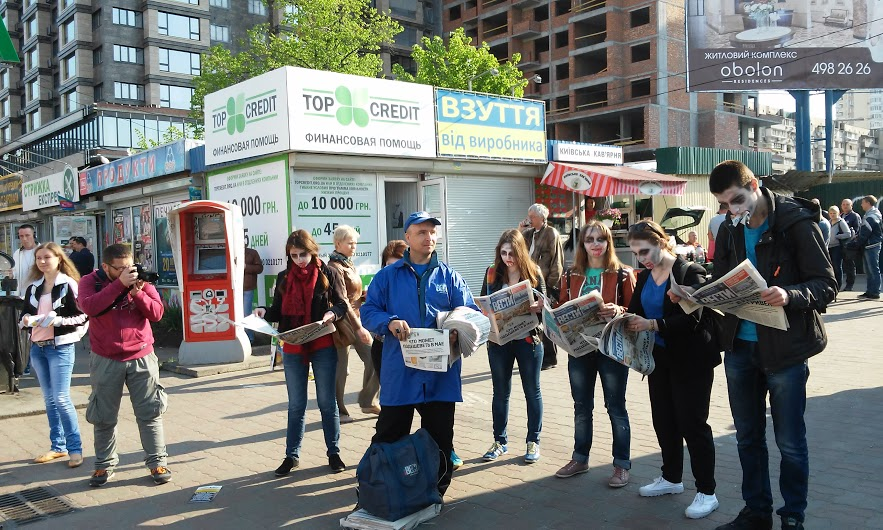 Theatrical action against Russian propaganda using the image of zombie near point of distribution newspaper "Vesti", near "Minska" staition, Kyiv.